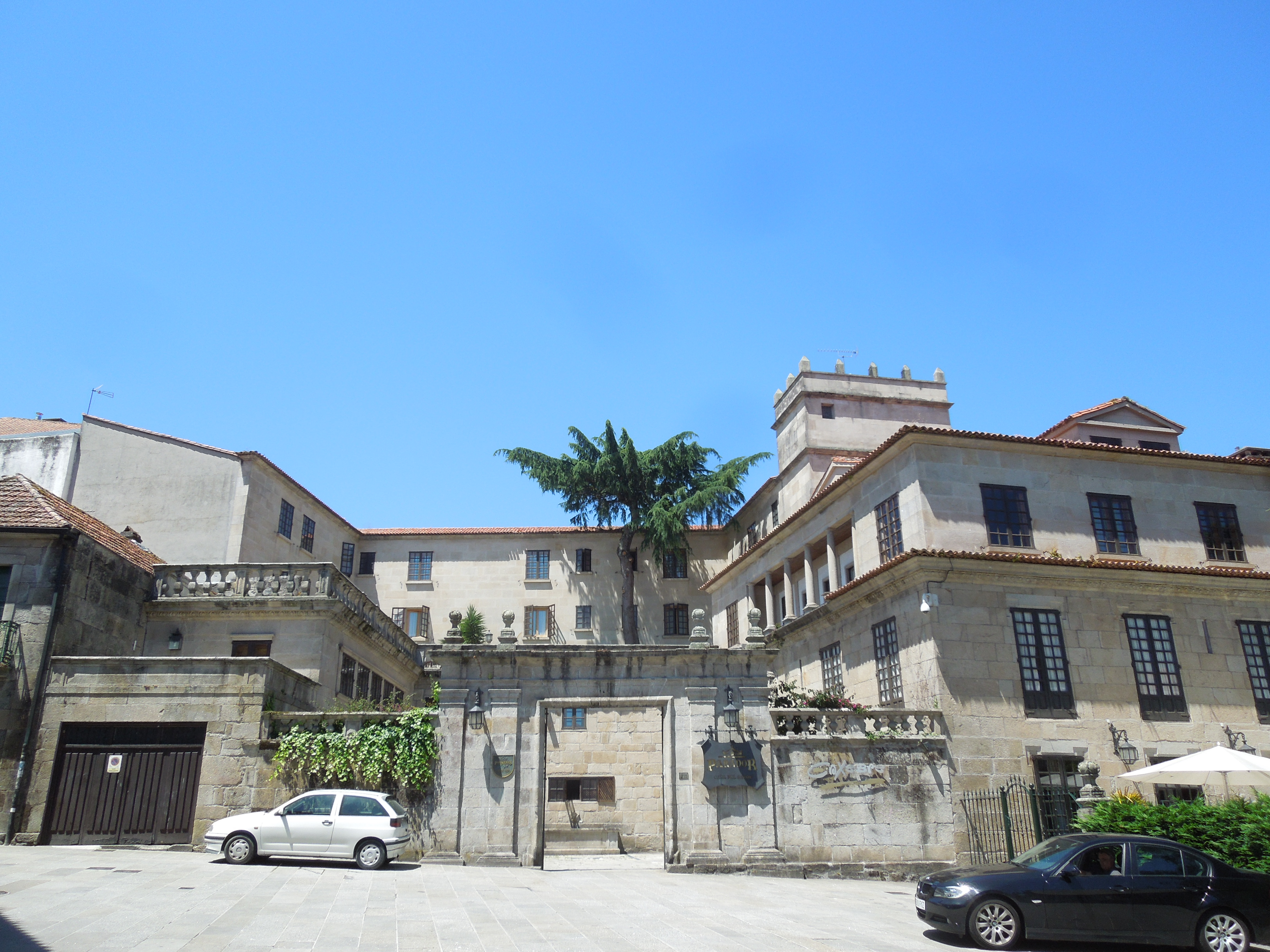 The Parador hotel in Pontevedra, a former palace